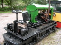 Quarryman (Ravenglass and Eskdale Railway)